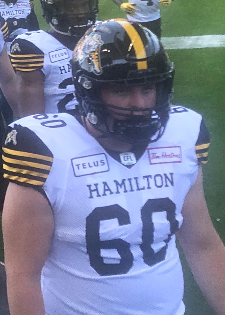 Darius Ciraco, offensive lineman for the Hamilton Tiger-Cats.